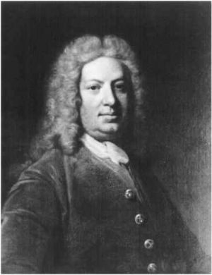 Horatio Walpole, 1st Baron Walpole (1678-1757) - brother of Sir Robert Walpole - english 18th C. politician